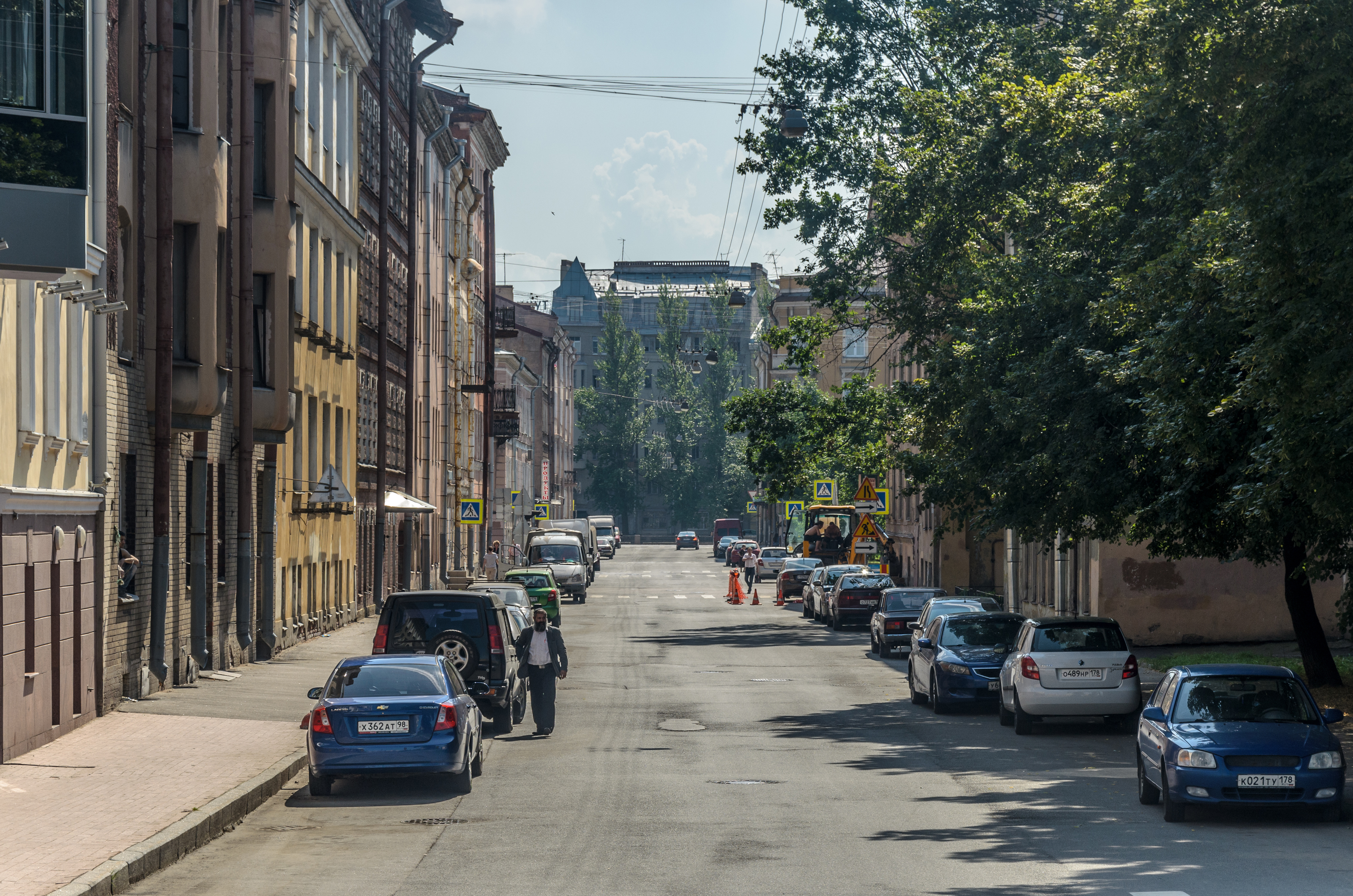 Drovyanoy Lane in Saint Petersburg